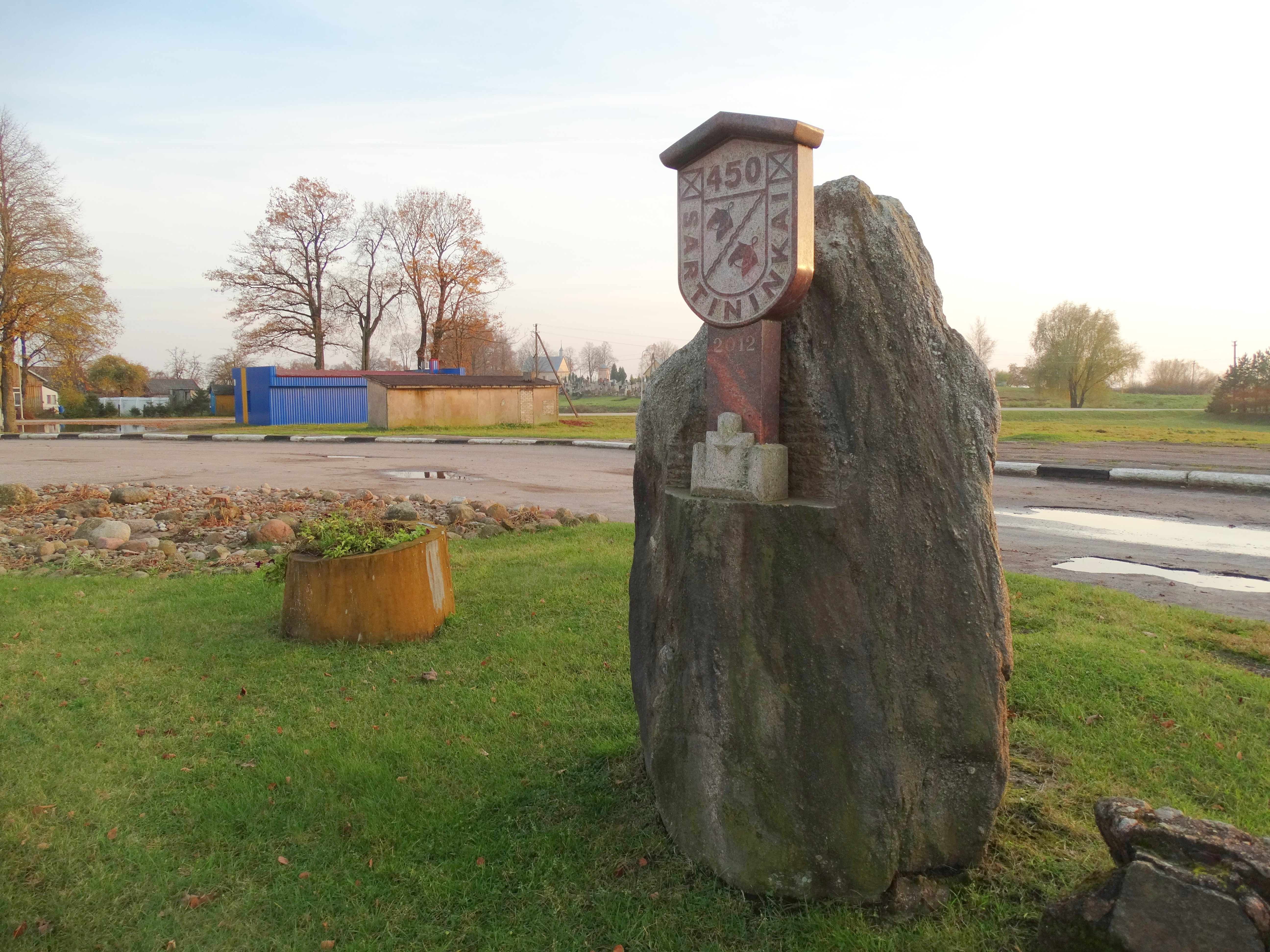 Stone with the coat of arms of Sartininkai, Tauragė district, Lithuania